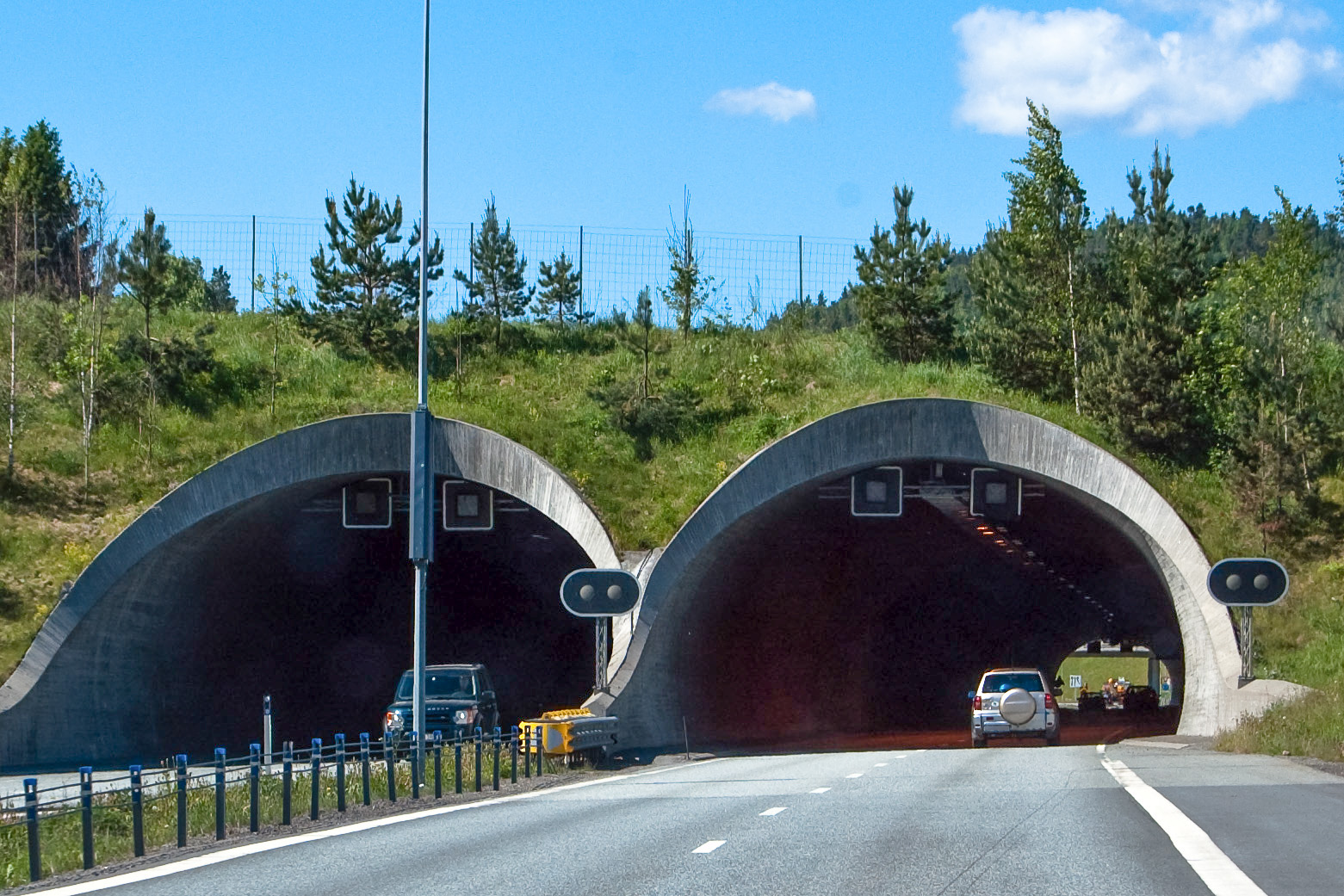 The Island tunnel on E18 in Vestfold, Norway.